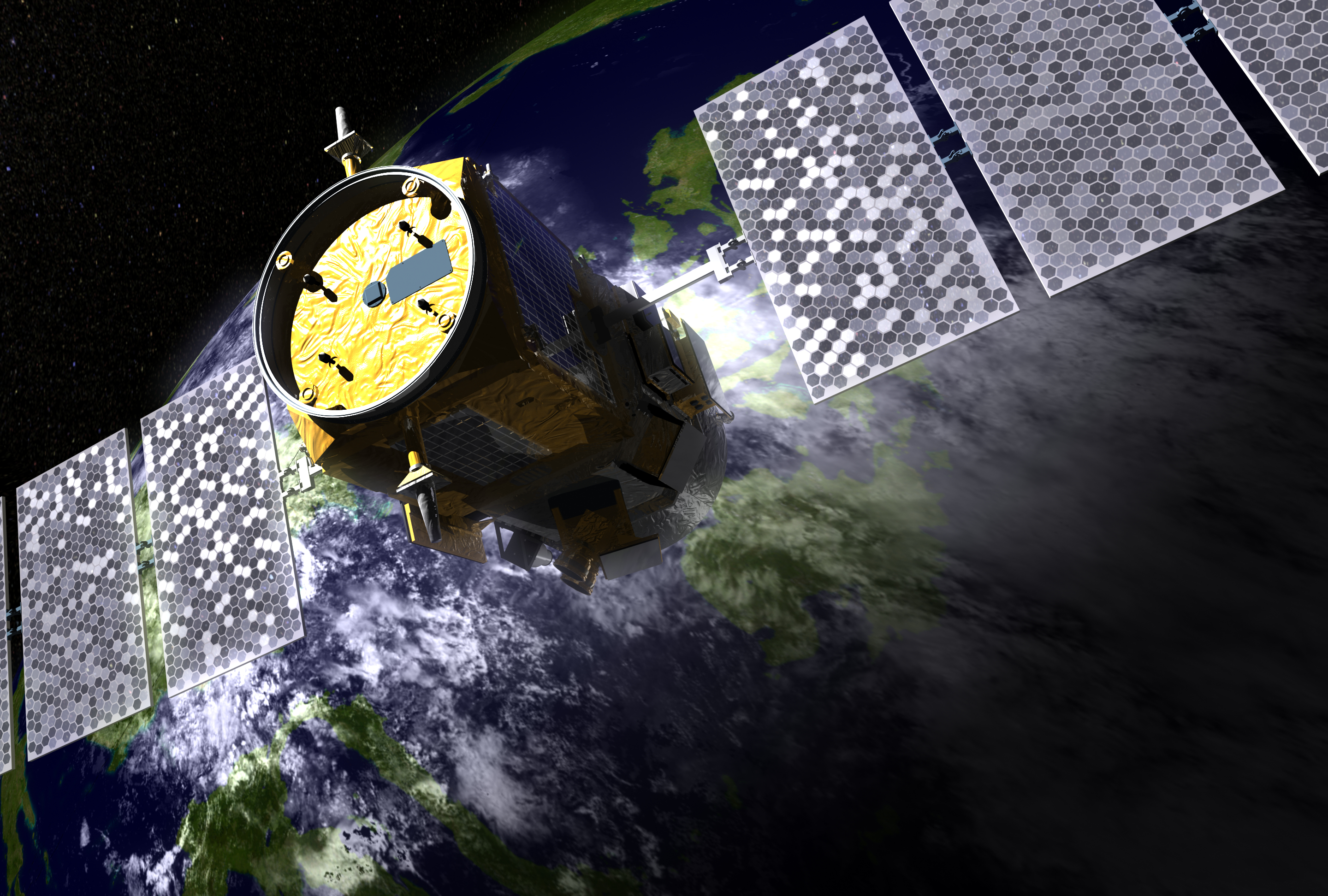 Artist concept of the CALIPSO satellite